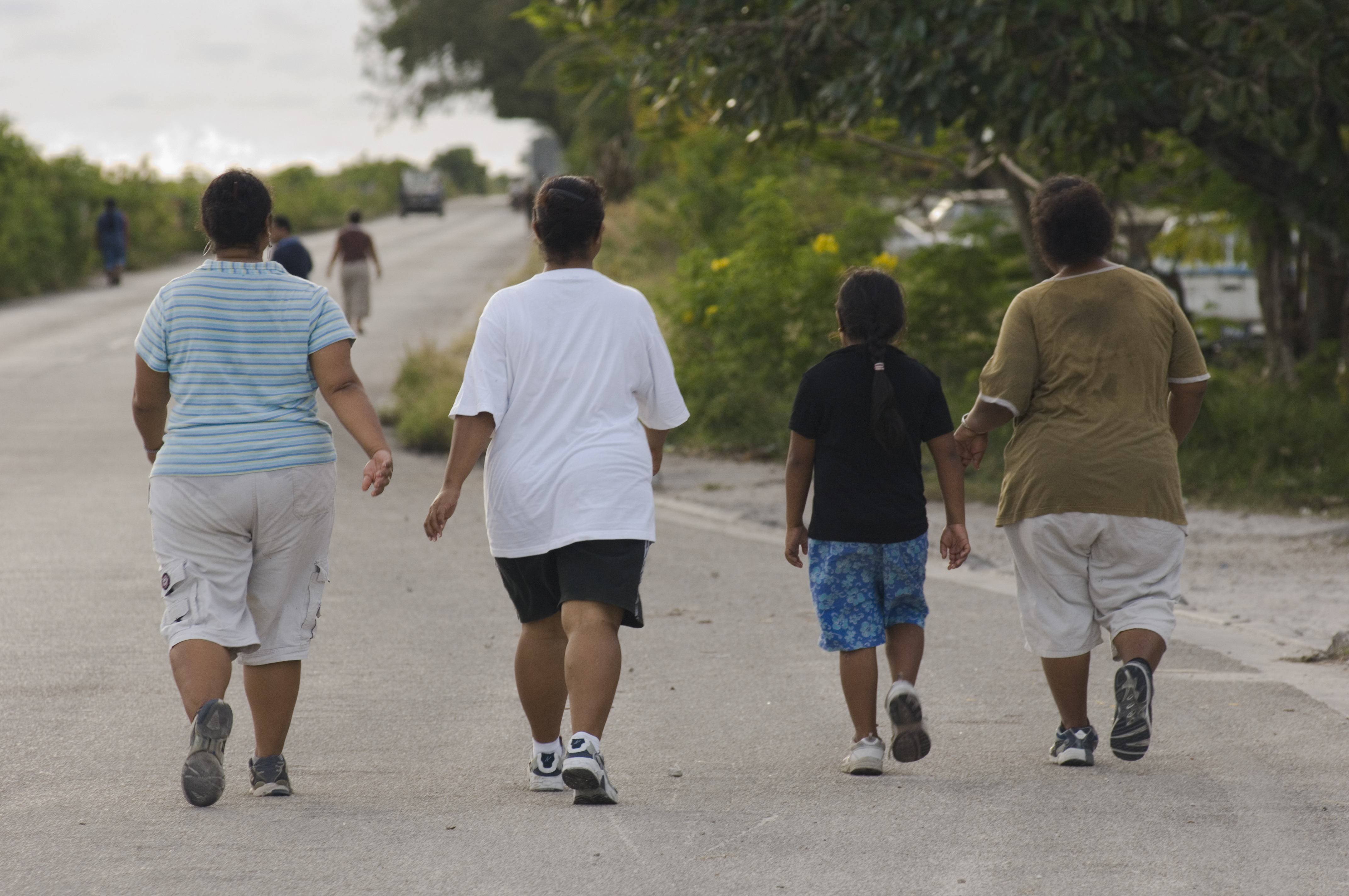 Participants of a walk against Diabetes and for general fitness around Nauru airport.